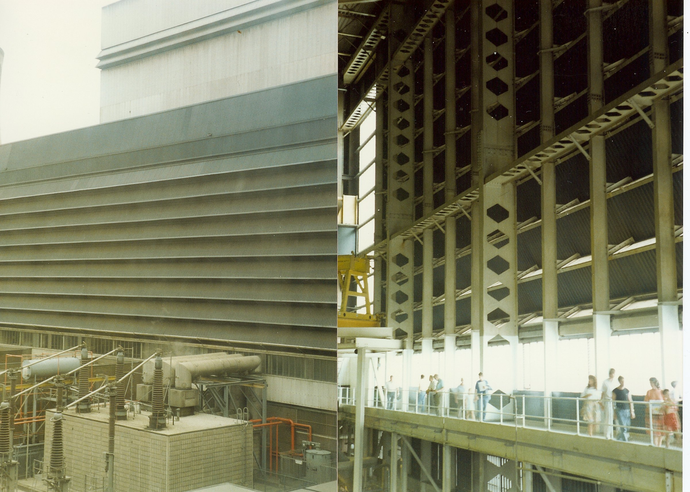 Drax turbine hall out- and inside (scanned)